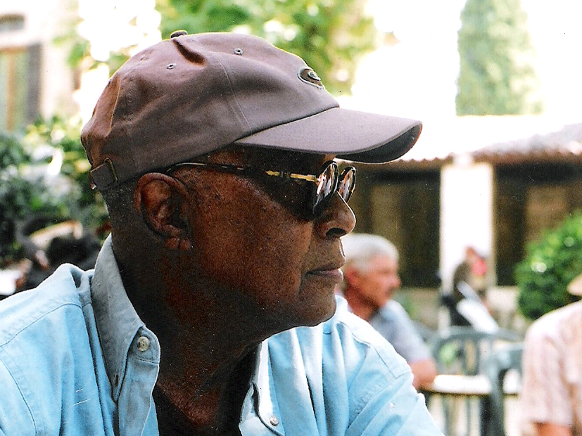 Alonzo Levister in 2007 at Saint-Paul-de-Vence, France